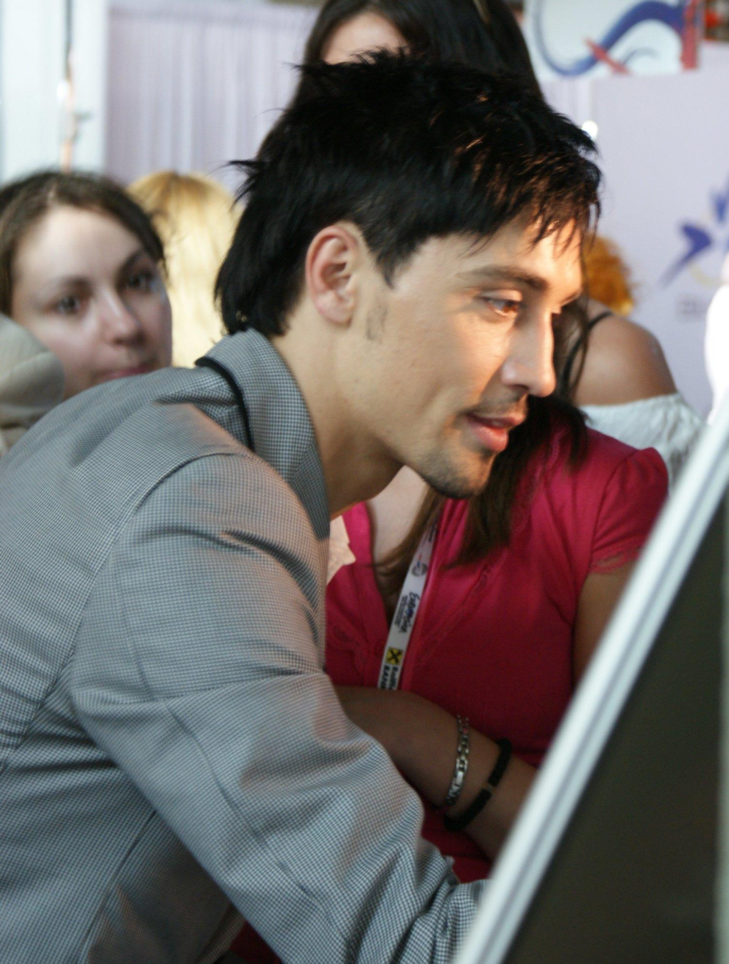 The winner of the Eurovision Song Contest - Belgrade 2008.